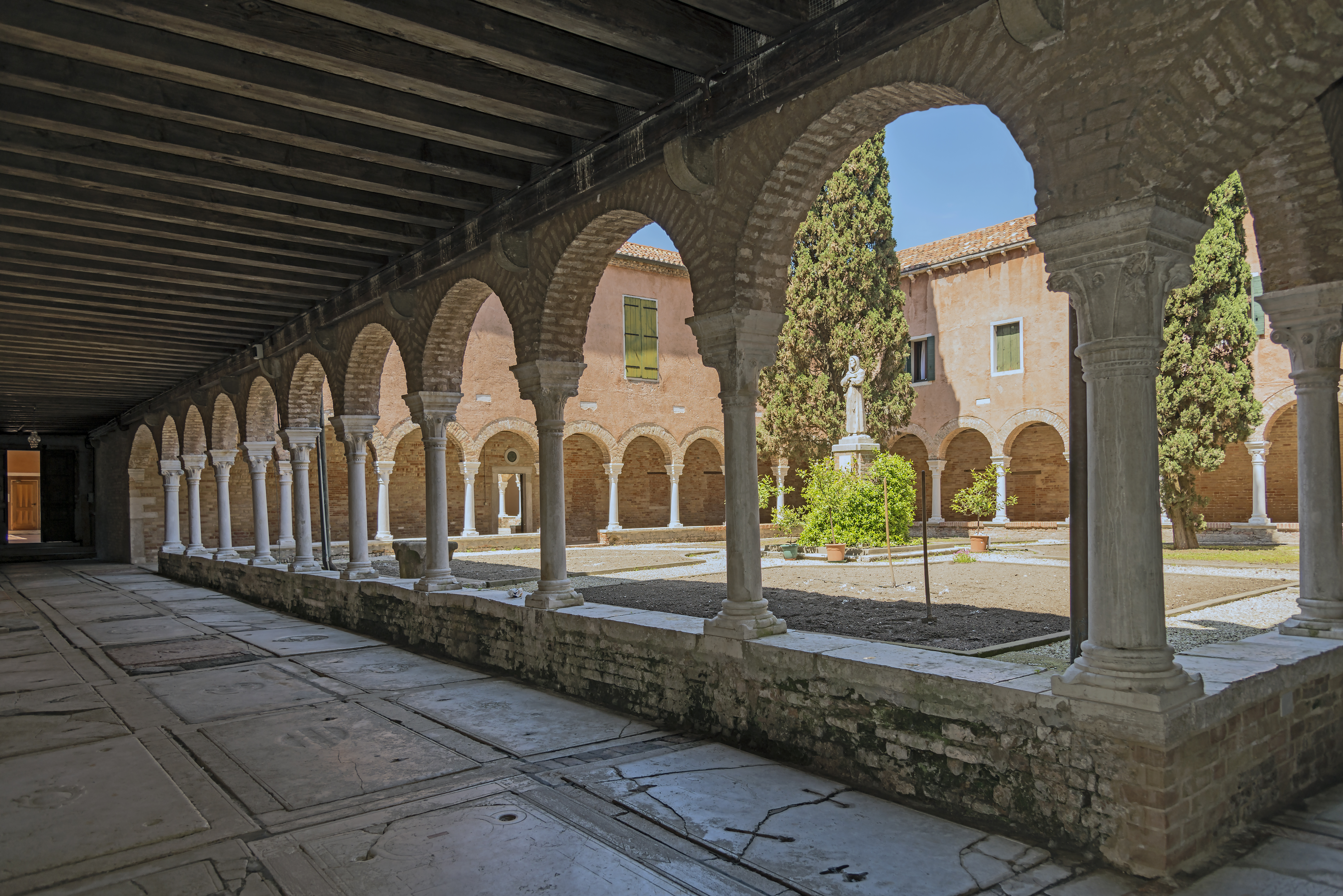 Church San Francesco della Vigna, in Venice, cloiter and tomb